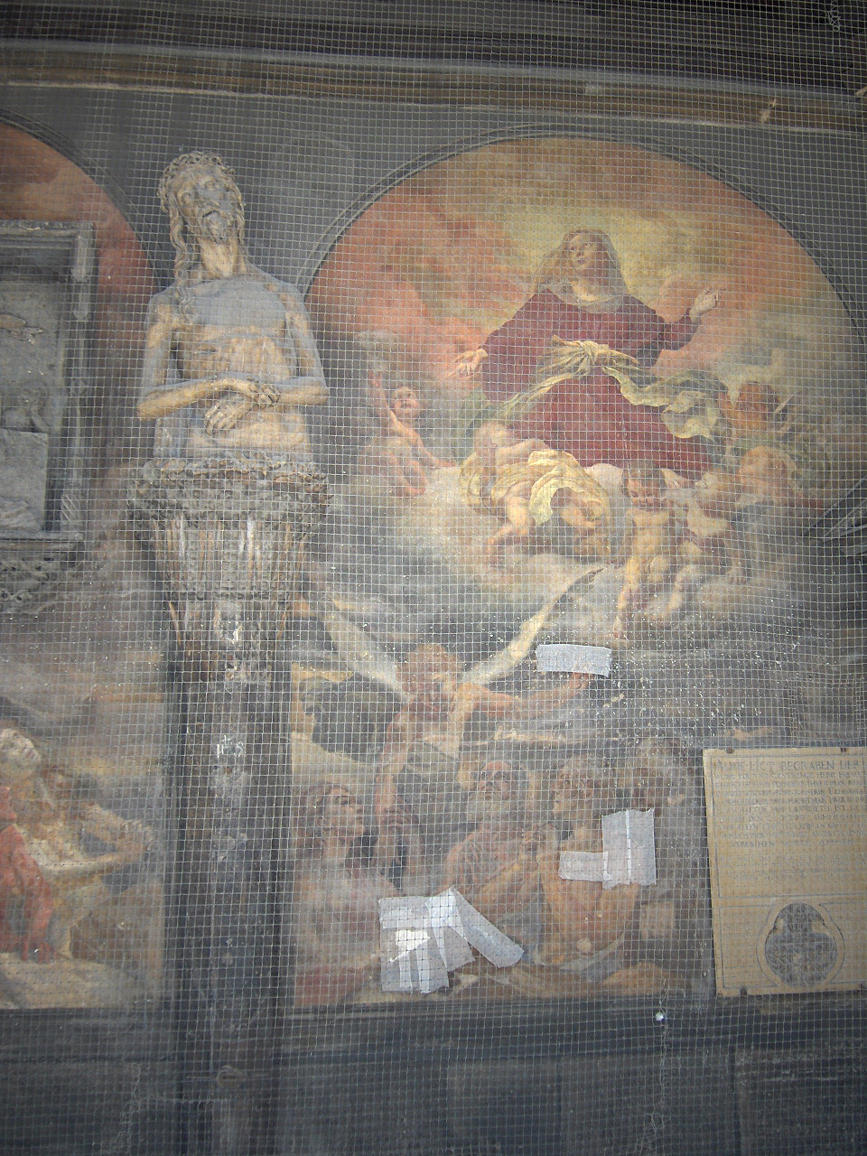 "Zahnweh-Herrgott" ("Christ with a toothache") at the back of the Stephansdom in Vienna, Austria